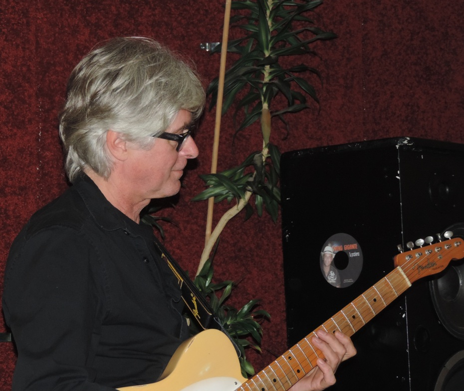 Werner Acker